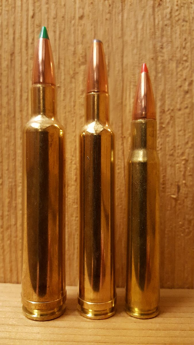 Size comparison between .30-378 Weatherby Magnum (left), .300 Weatherby Magnum (center), .30-06 (right)